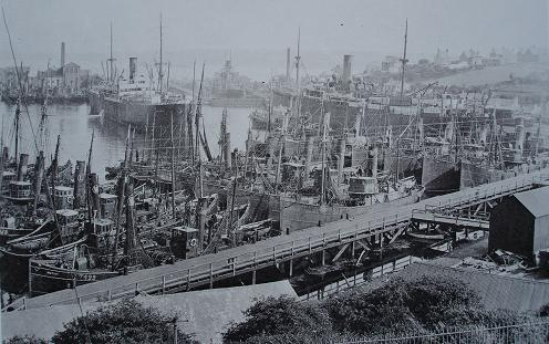 Fishing fleet laid up in Milford Haven during the coal strike 1921 – from Milford Haven in Old Postcards, J Warburton